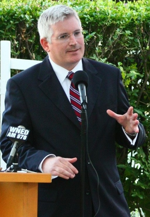 New York State Assemblyman Michael P. Kearns.